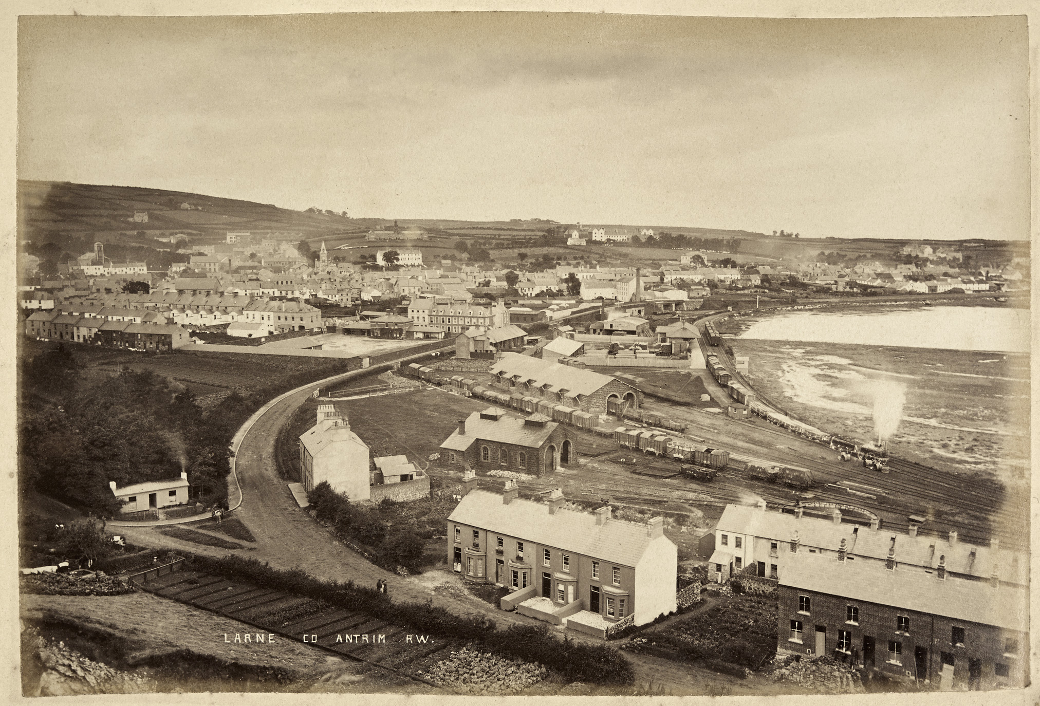 Creator: R. Welch (Photographer) Date: c.1888 Original Format: Photographic Print Description: A view of Larne, Co Antrim PRONI Ref: D1403_1~021~A Copying and copyright: Please For Copy Orders, contact: For fees and charges